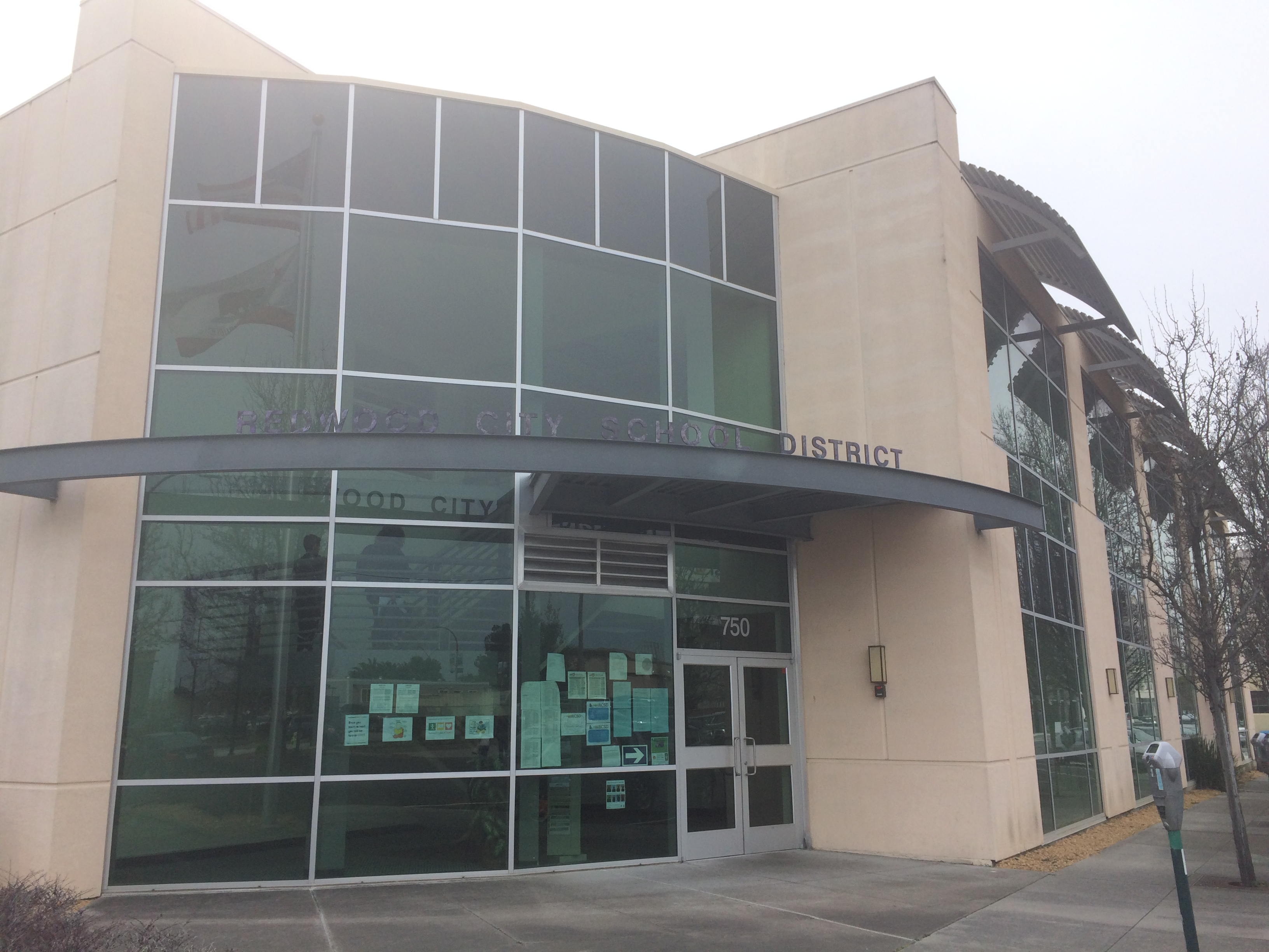 Exterior view of headquarters of Redwood City School District in Redwood City, California